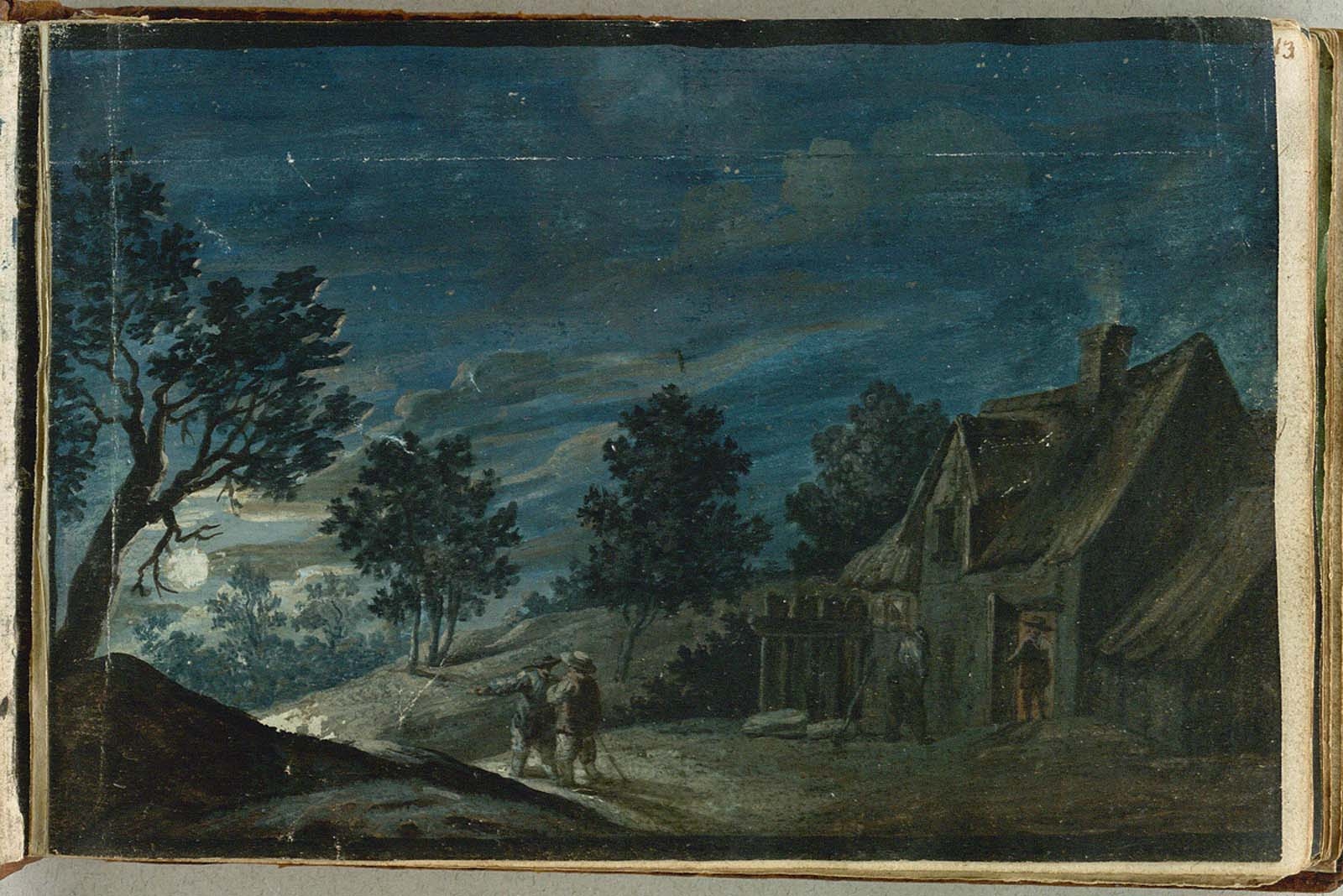 Drawings from engraver Gerhard Ludvig Lahde`s stambog, a sort of guestbook he had with him when travelling. A lot of friends and artists, some of them unknown today, wrote small greetings and made scetches in his stambog. There are drawings by F. Camradt, C. D. Fritsch, Hans Hansen, J. L. Lund, Elias Meyer, C. F. Stanley, Runge, Friedrich, Bertel Thorvaldsen and C.W. Eckersberg.